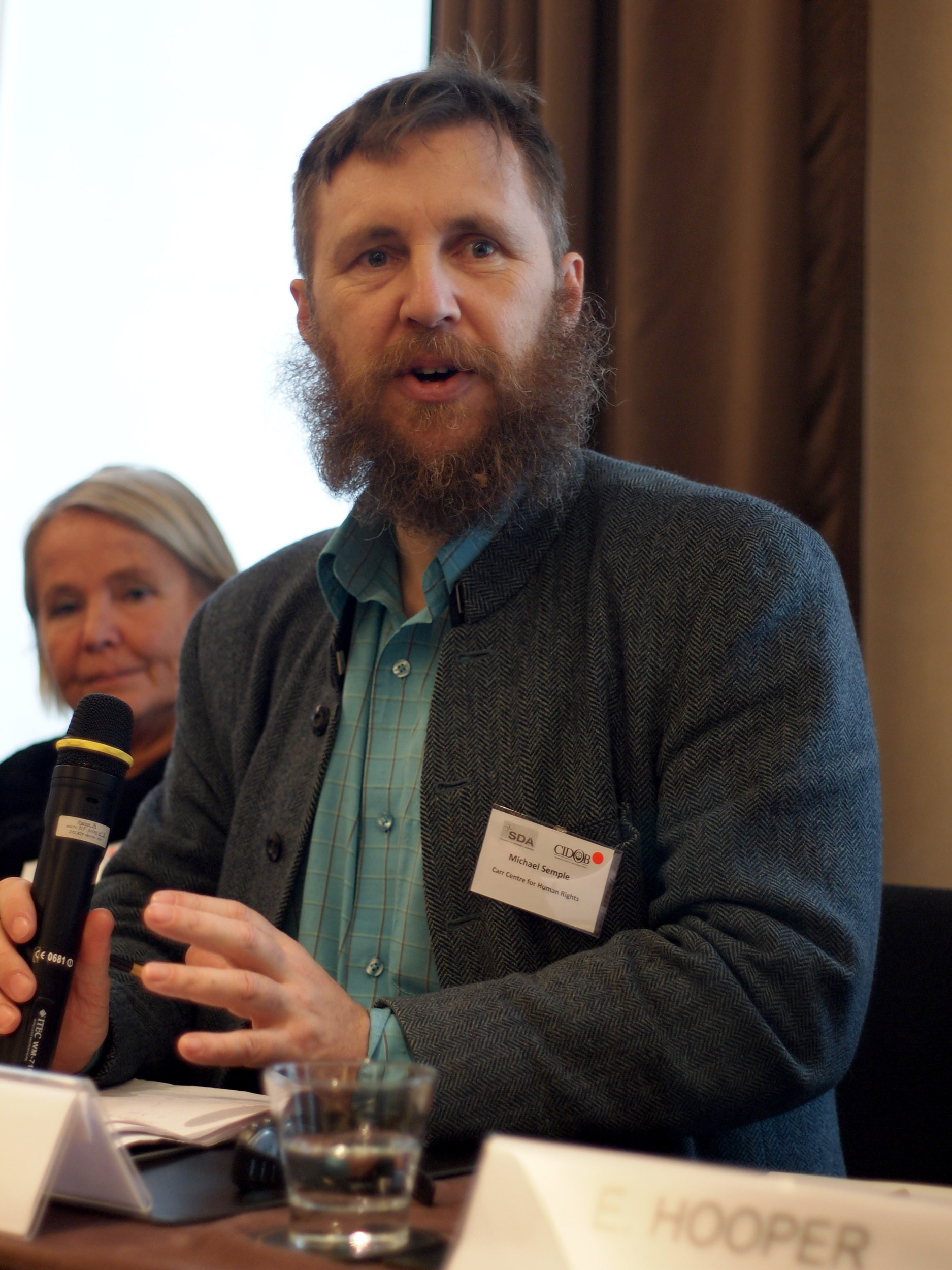 Michael Semple, former EU Deputy Special Representative to Afghanistan